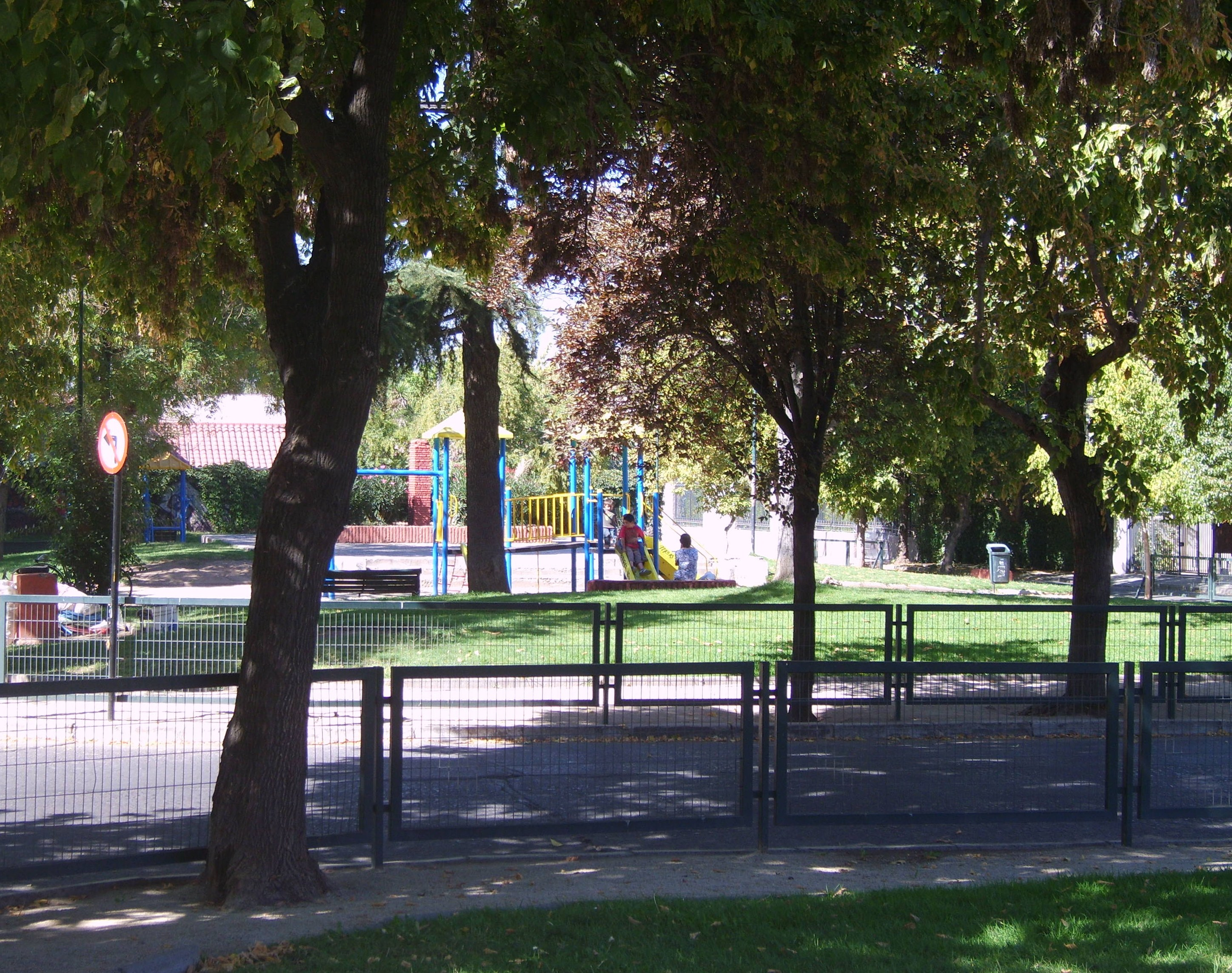 Bombero soto town square, La Reina